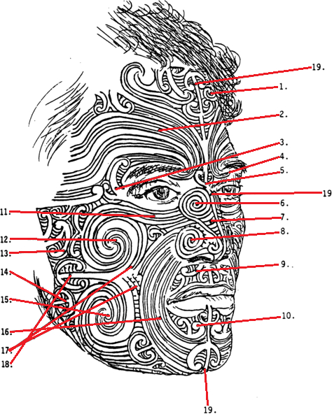 Moko nomenclature by Horatio Gordon Robley from 1. Titi 2. Tiwahana 3. Pukaru 3a. Kape 4. Rewha 5. Kohiti 6. Ngu 7. Whakatara 8. Pongiangia 9. Hupe 10. Kauae (Kauwae) 11. Kumikumi 12. Kowhiri (Kowiri) 13. Paepae 14. Putarinqa 15. Korowaha (koroaha) 16. Rerepehi 17. Wero 18. Kokiri 19. Waiora